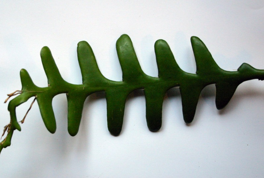 Stem of Epiphyllum anguliger